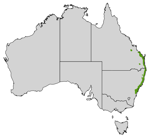 Self-made map derived from official distribution of Banksia oblongifolia - George, Alex (1999) "Banksia " in Wilson, Annette (ed.) , ed. Flora of Australia: Volume 17B: Proteaceae 3: Hakea to Dryandra, CSIRO Publishing / Australian Biological Resources Study, p. p. 377 ISBN: 0-643-06454-0. Base map of Australia was File:Australia map, States.svg